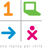 Logo of One Laptop per Child